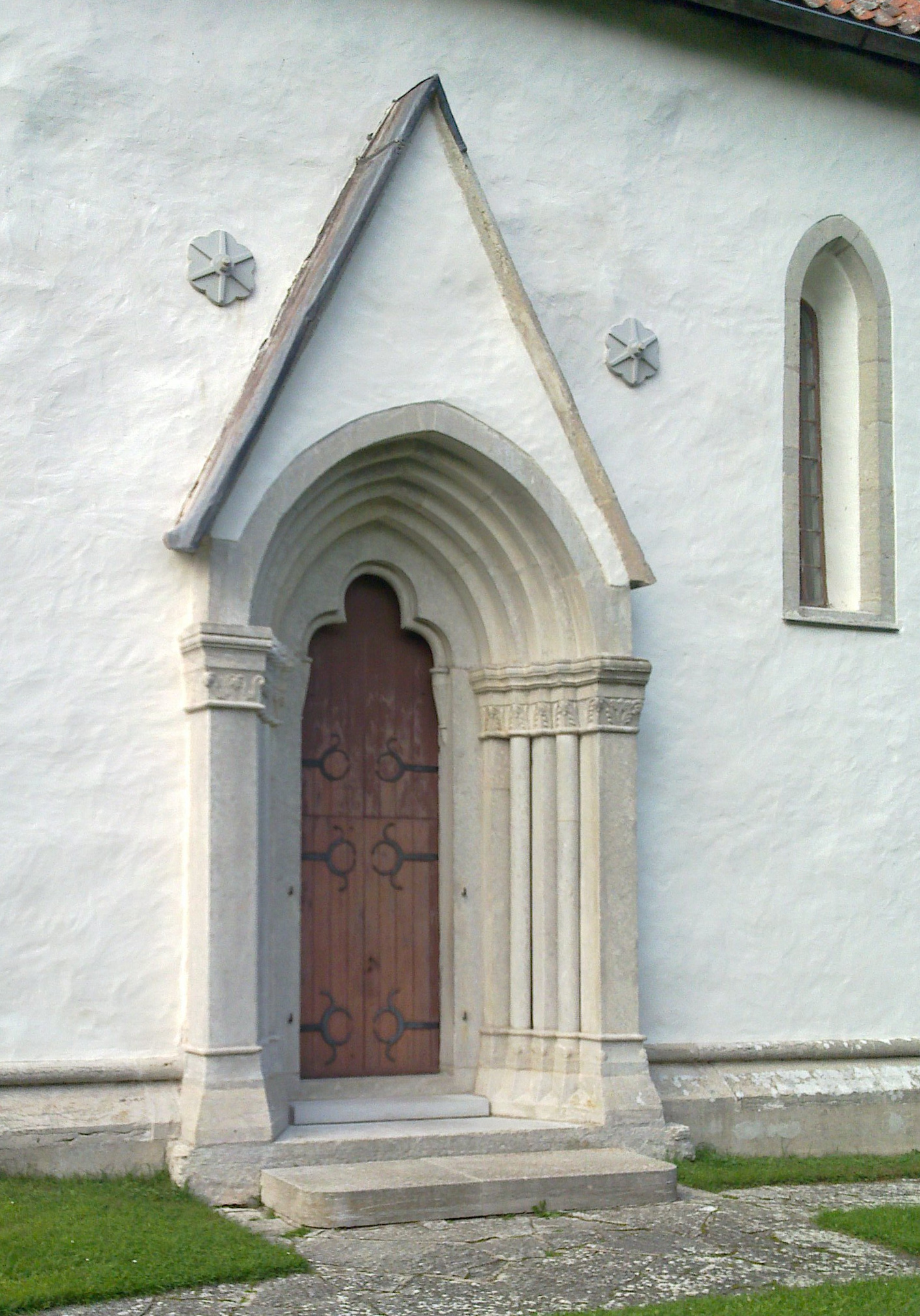 Church of Hellvi, Gotland, Sweden